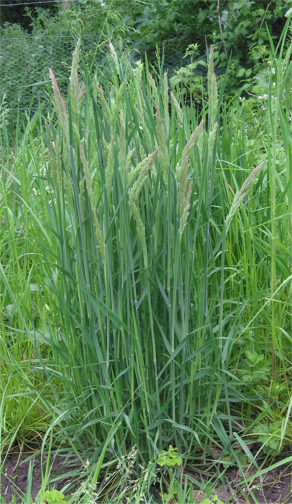 Holcus lanatus Gestreepte witbol